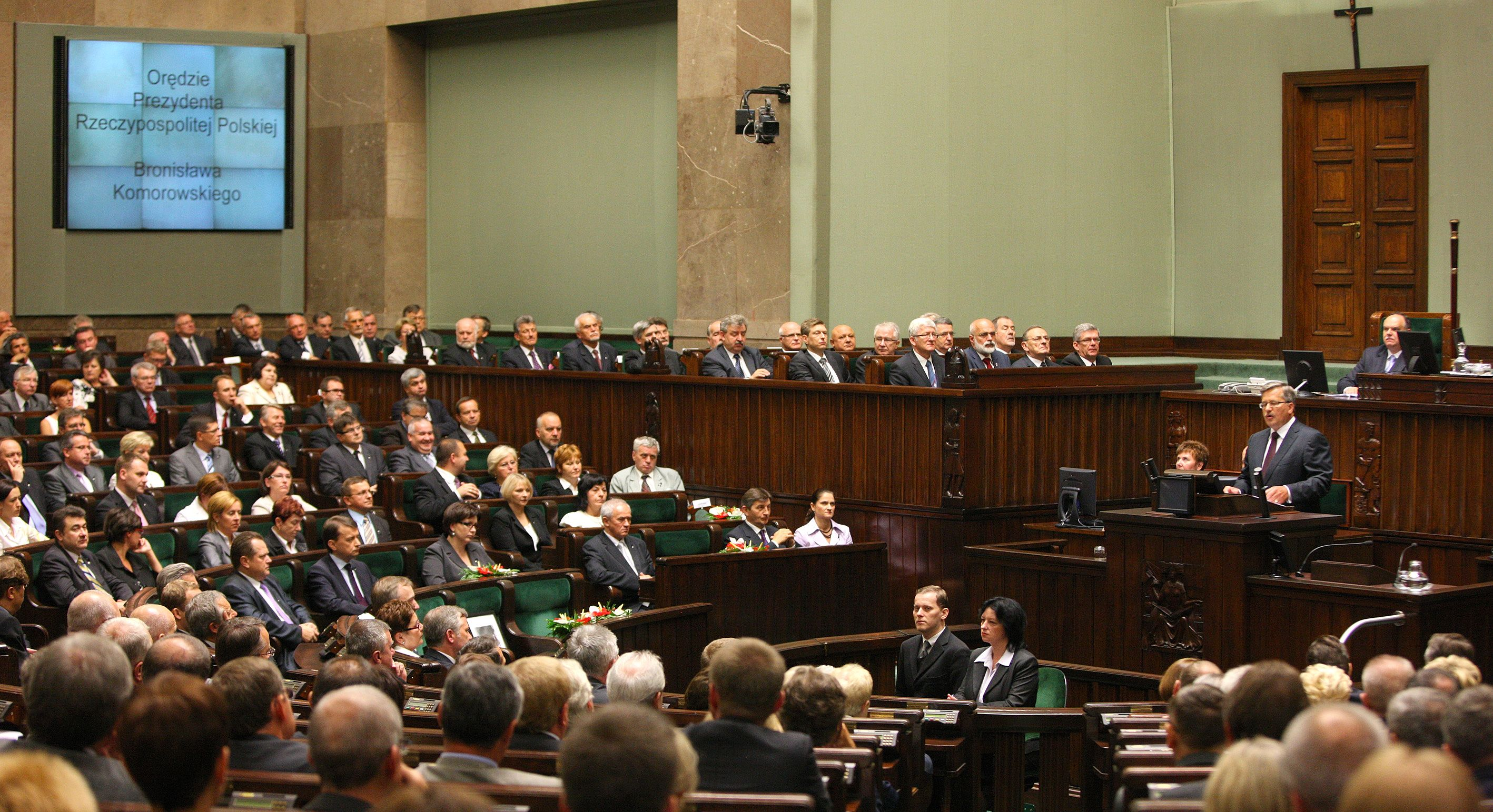 Bronisław Komorowski's presidential address to the National Assembly